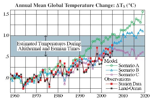 A comparison between the 1988 global mean temperature projections shown by James Hansen in his 1988 congressional testimony and the subsequent observations. Scenario A assumes rapid exponential growth of GHGs and includes no large volcanic eruptions. Scenario B has continued moderate increase in the rate of GHG emissions and includes three large volcanic eruptions. Scenario C assumes GHGs were to stop increasing after 2000.